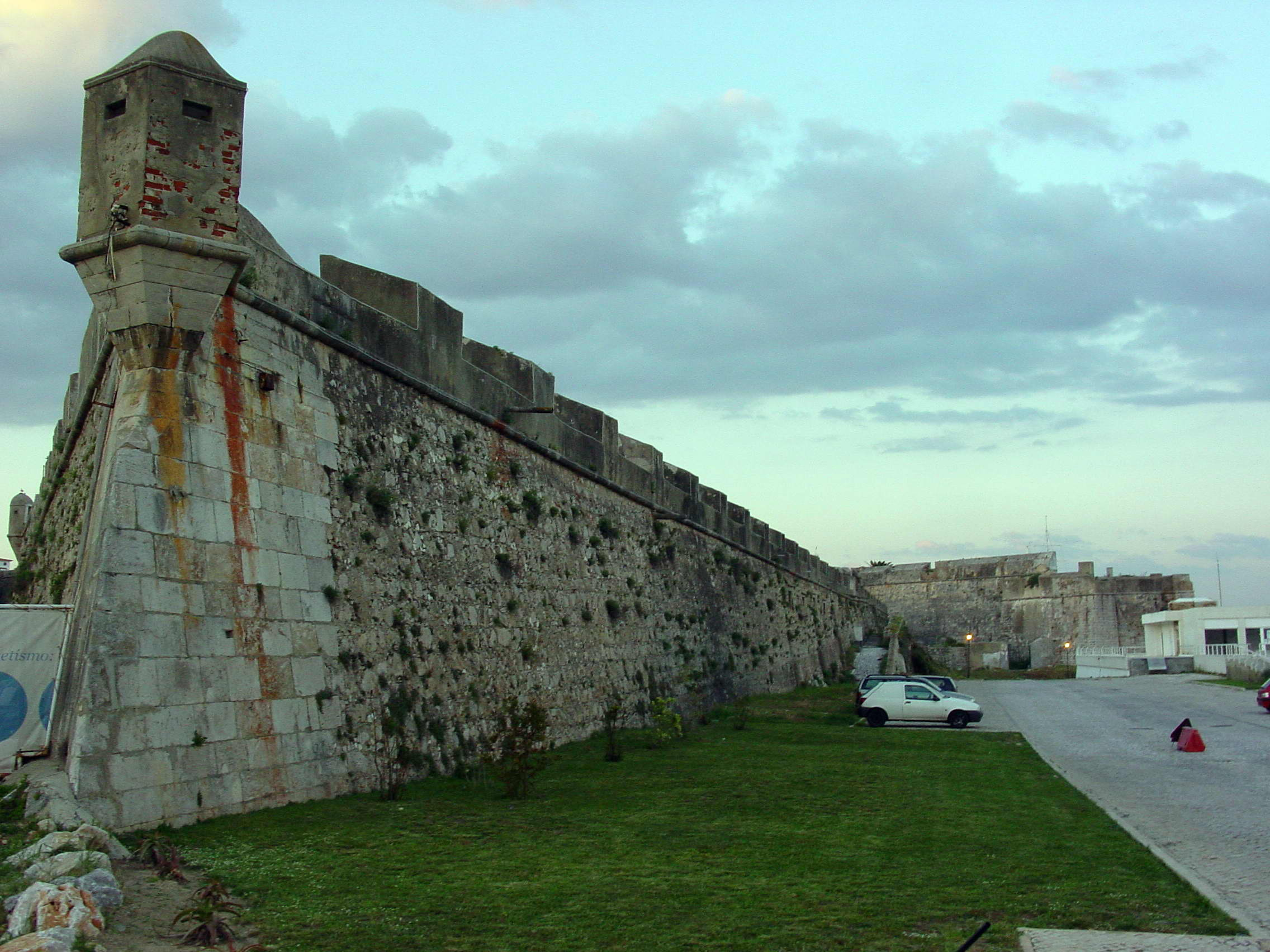 Cascais is a coastal village of Portugal.